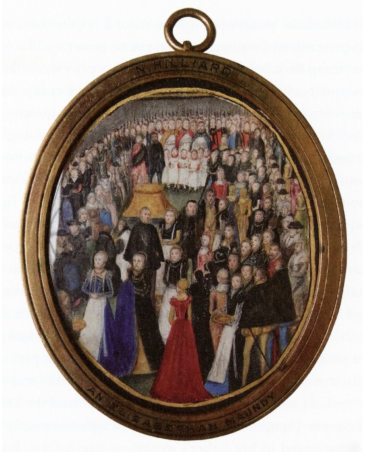 A Royal Maundy, also called An Elizabeth Maundy